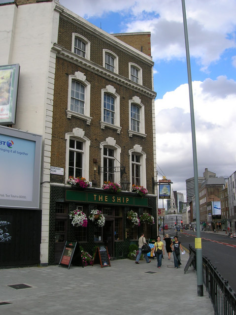 The Ship, Borough Road SE1 At the junction with Borough High Street SE1